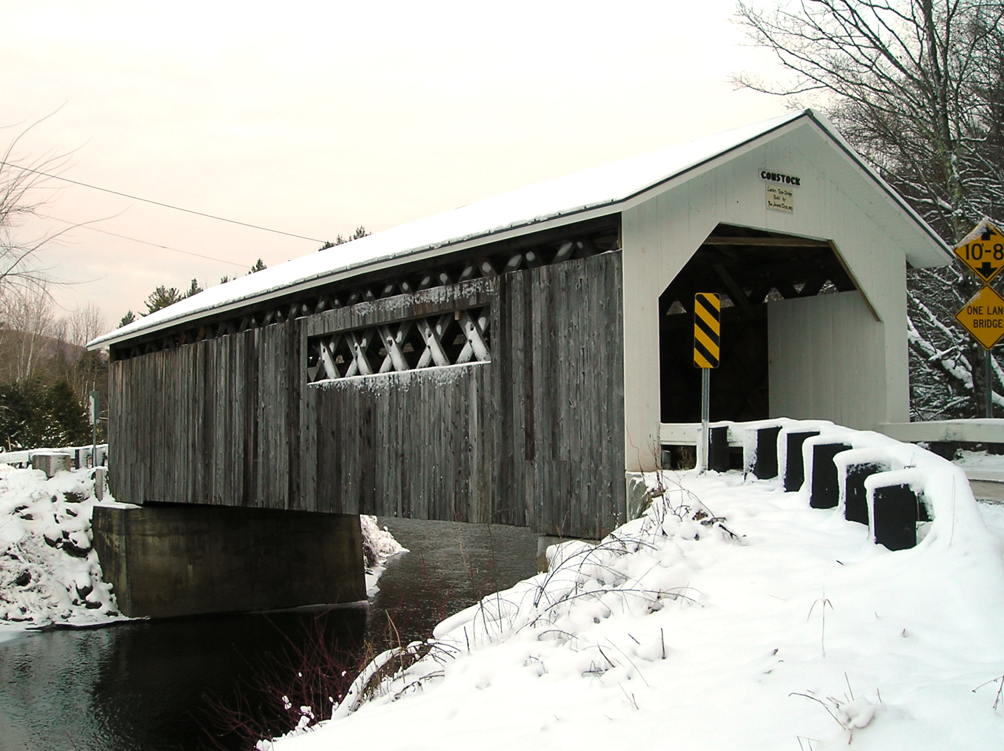 Comstock covered bridge, Town Lattice, 80', spanning Trout River on Comstock Bridge Road, off Route 118 in Montgomery village.